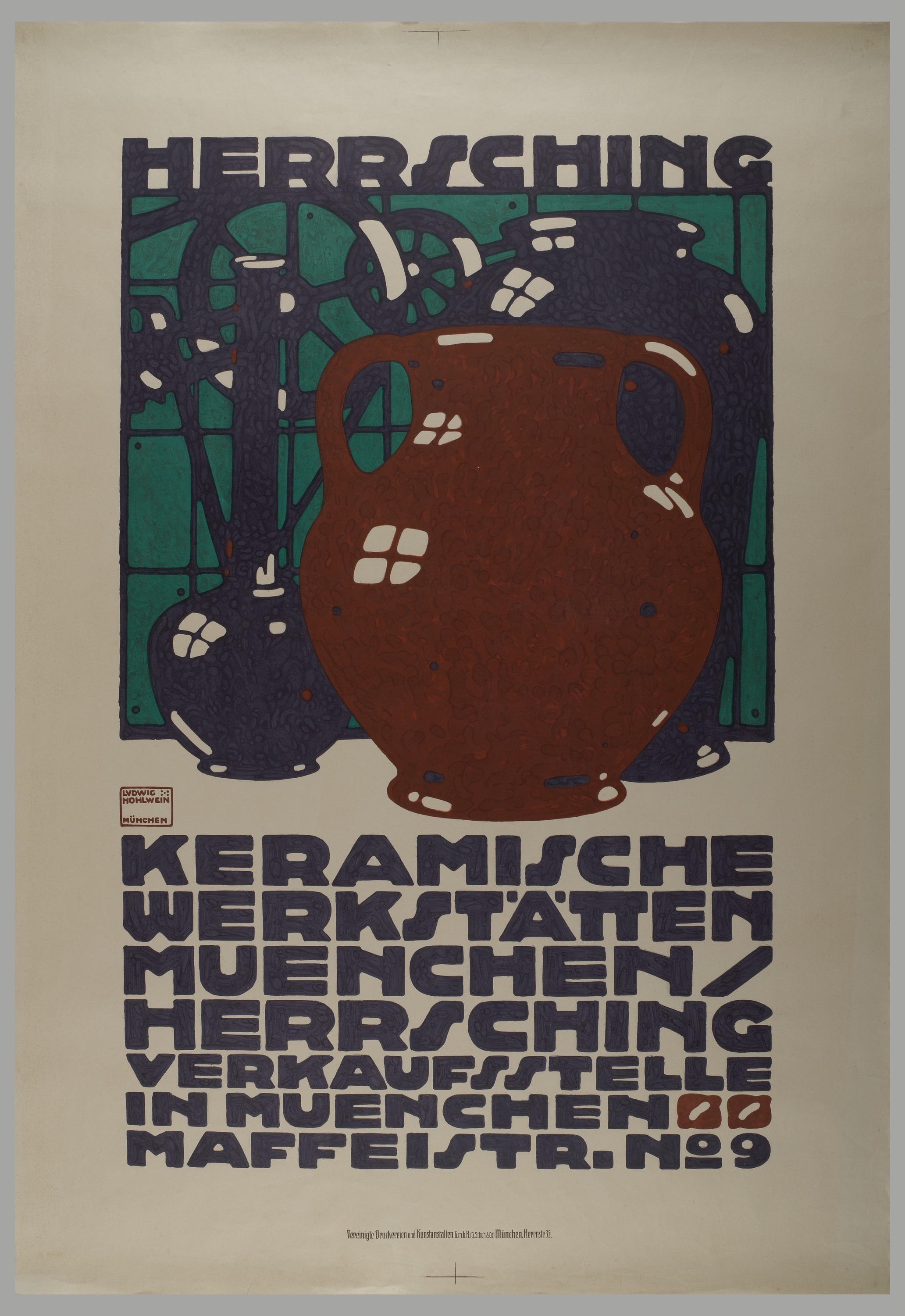 In upper half, still-life of three vases sitting before a tiled wall with apparatus of a potter's wheel in the upper left corner. Lower half, filled with text.